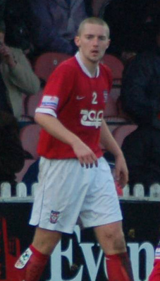 Darren Craddock. Image cropped from original at flickr.